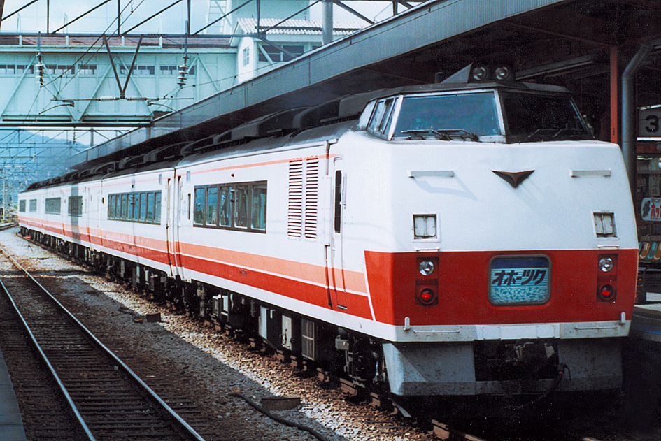 JR Hokkaido KiHa 183 series DMU on an Okhotsk limited express service